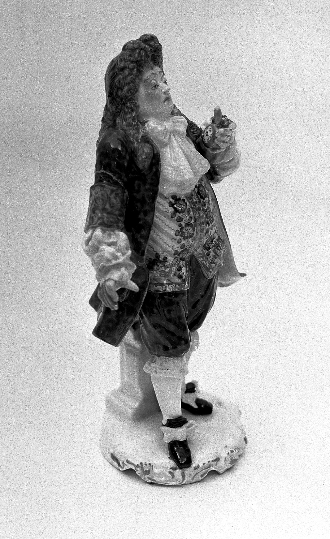 Porcelain physician with a pulse watch Wellcome Images